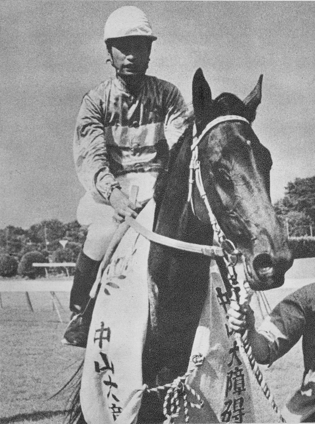 Kenny Mor(horse)